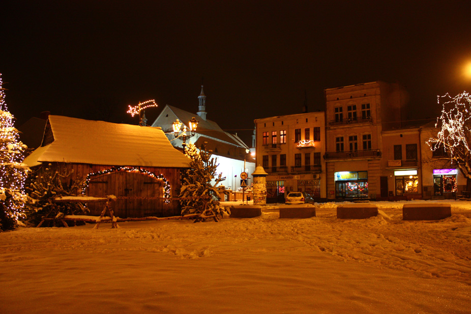 Marketsquare in Wolbrom, Jan 5, 2009